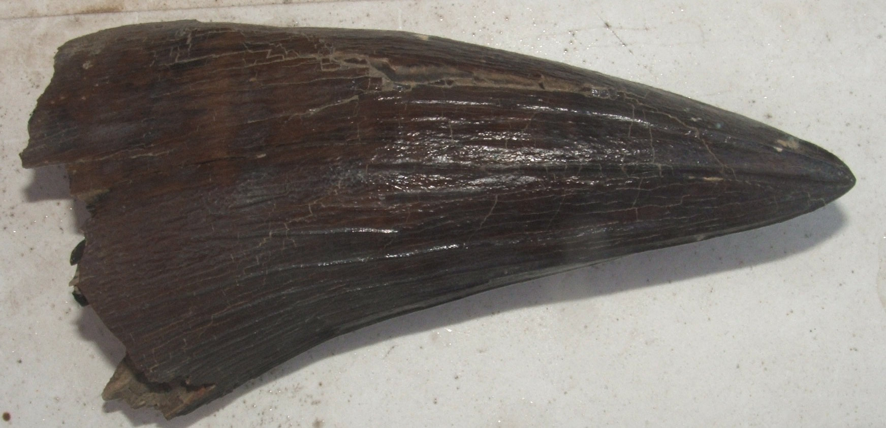 A fine Simolestes Vorax Tooth from the Callovian of England.